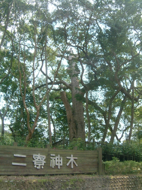 Erliao Divine Tree in Hsinchu County.